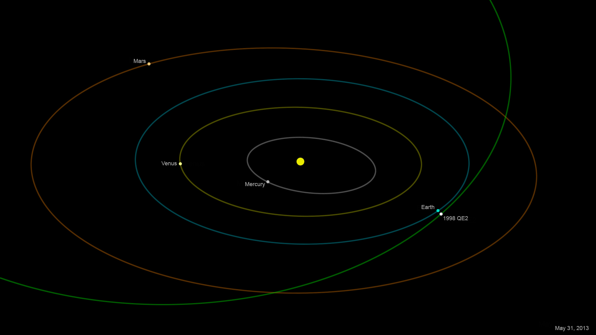 Asteroid_1998_QE2_May_31,_2013_orbit